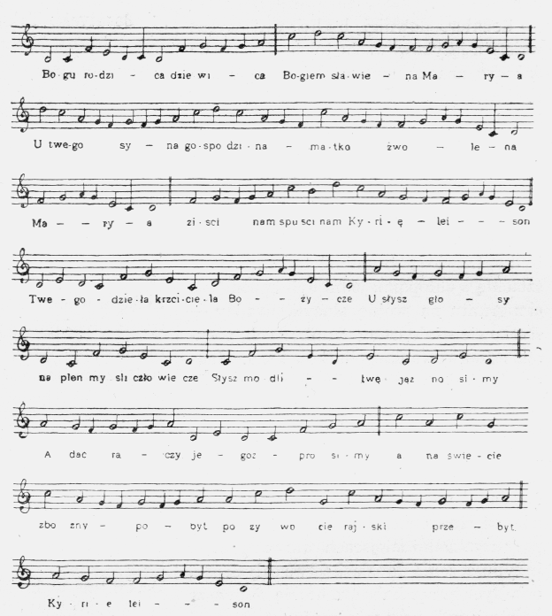 Bogurodzica from 1407. The transcription was made by A. Poliński. The notes come from Zygmunt Gloger's Encyclopedia.